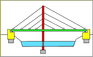 Design of cable bridge